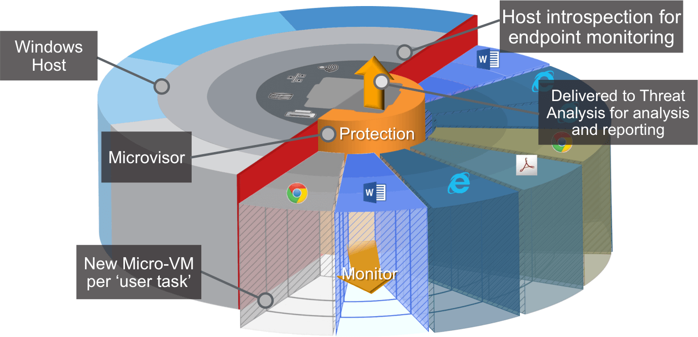 microvisor breakdown